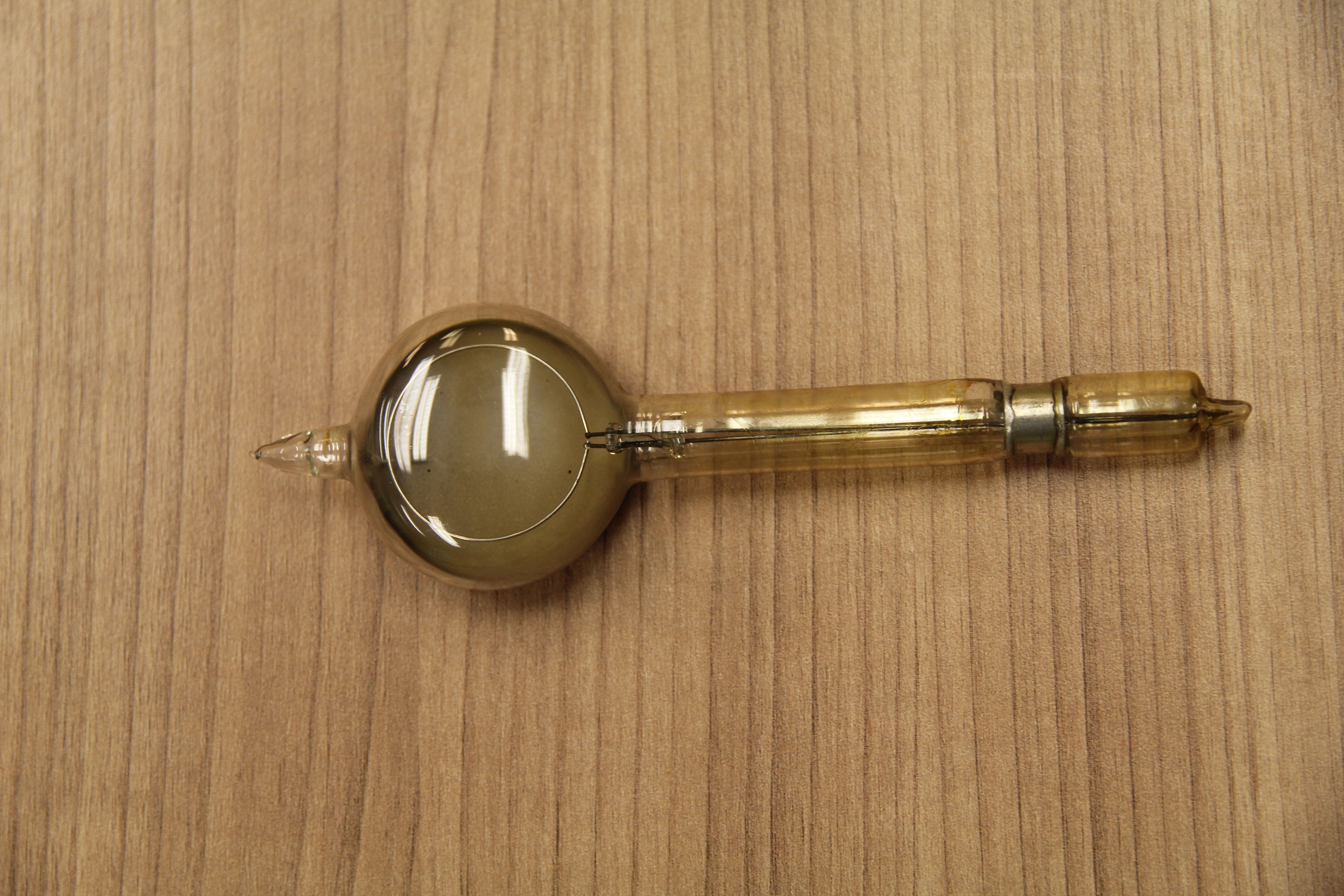 Photoelectric cell